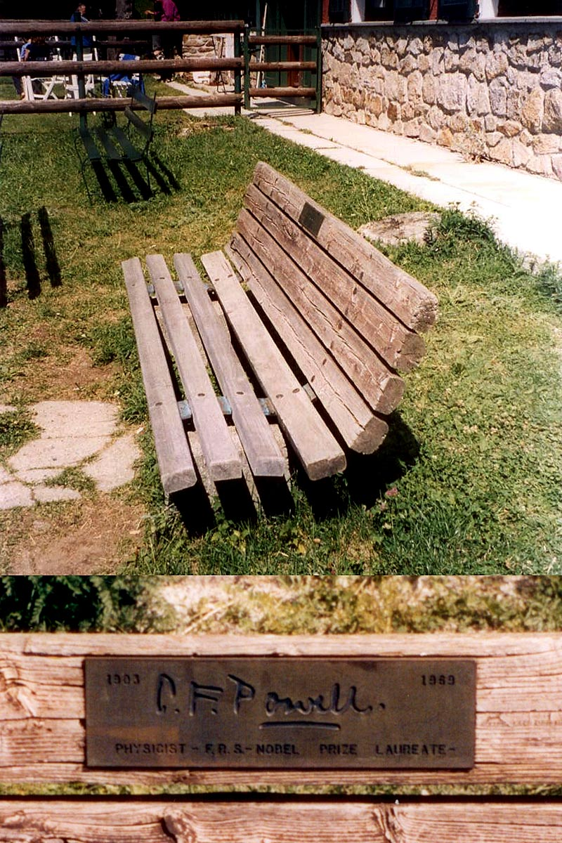 Montage photograph of Cecil Powell memorial plaque marking his place of death in Italy